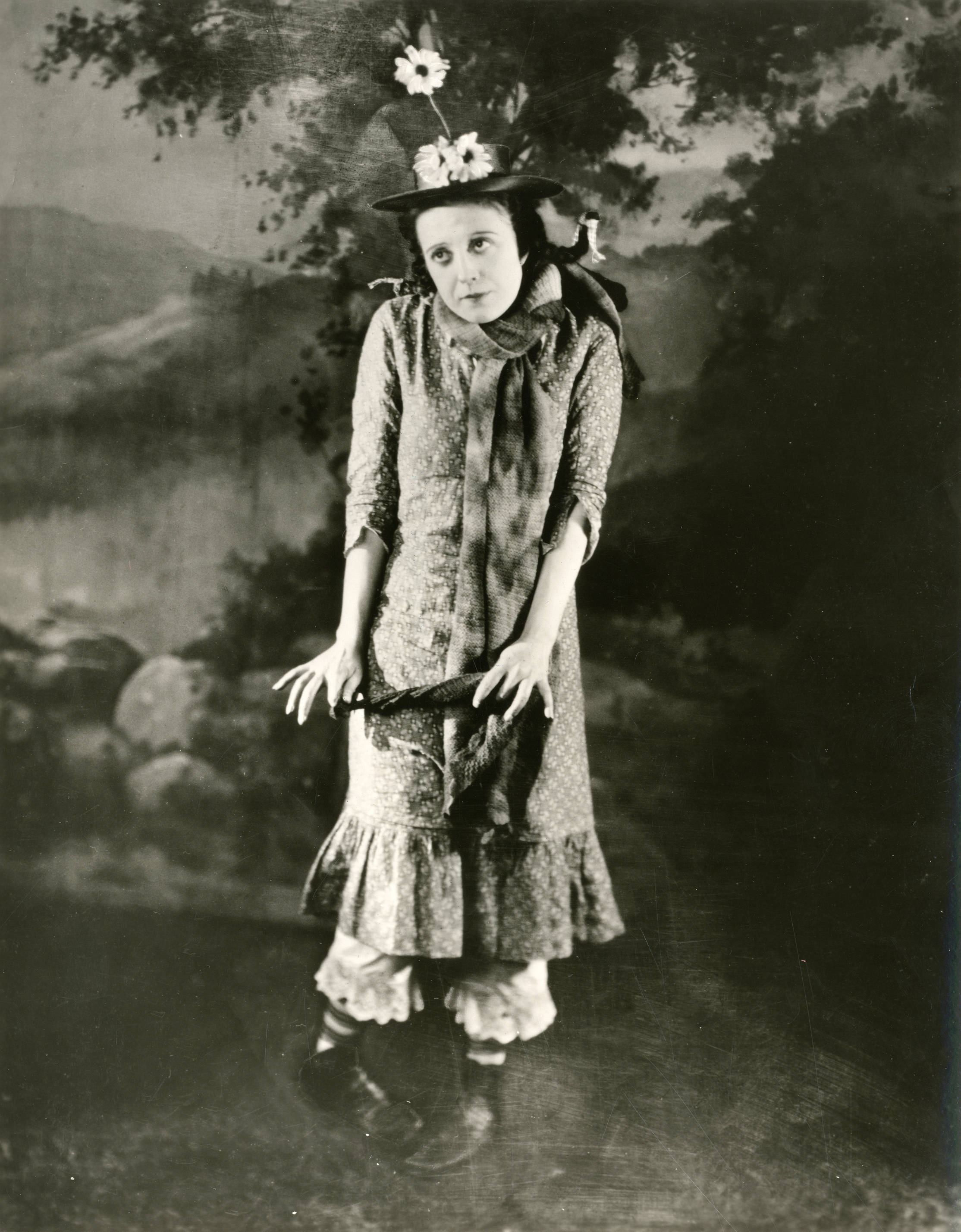 Mabel Normand, silent film actress, from the American film Sis Hopkins (1919). Subjects: actresses, motion pictures